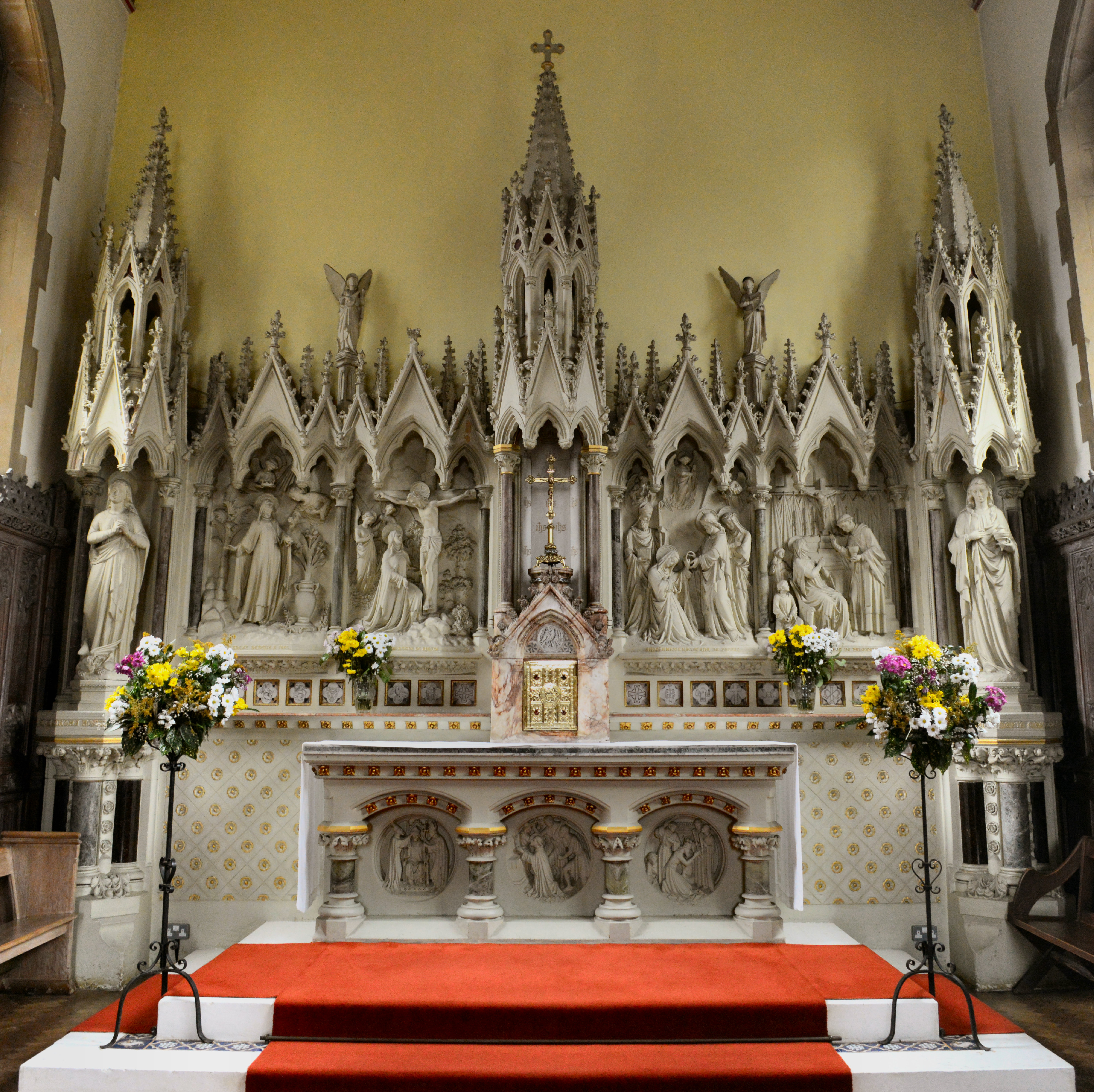 Dulwich, St Thomas More Church, Caen stone reredos. The reredos is probably by E W Pugin, brought here from Hales Place, Canterbury.